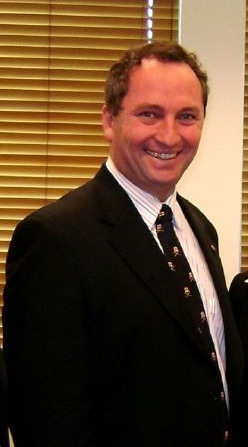 Barnaby Joyce